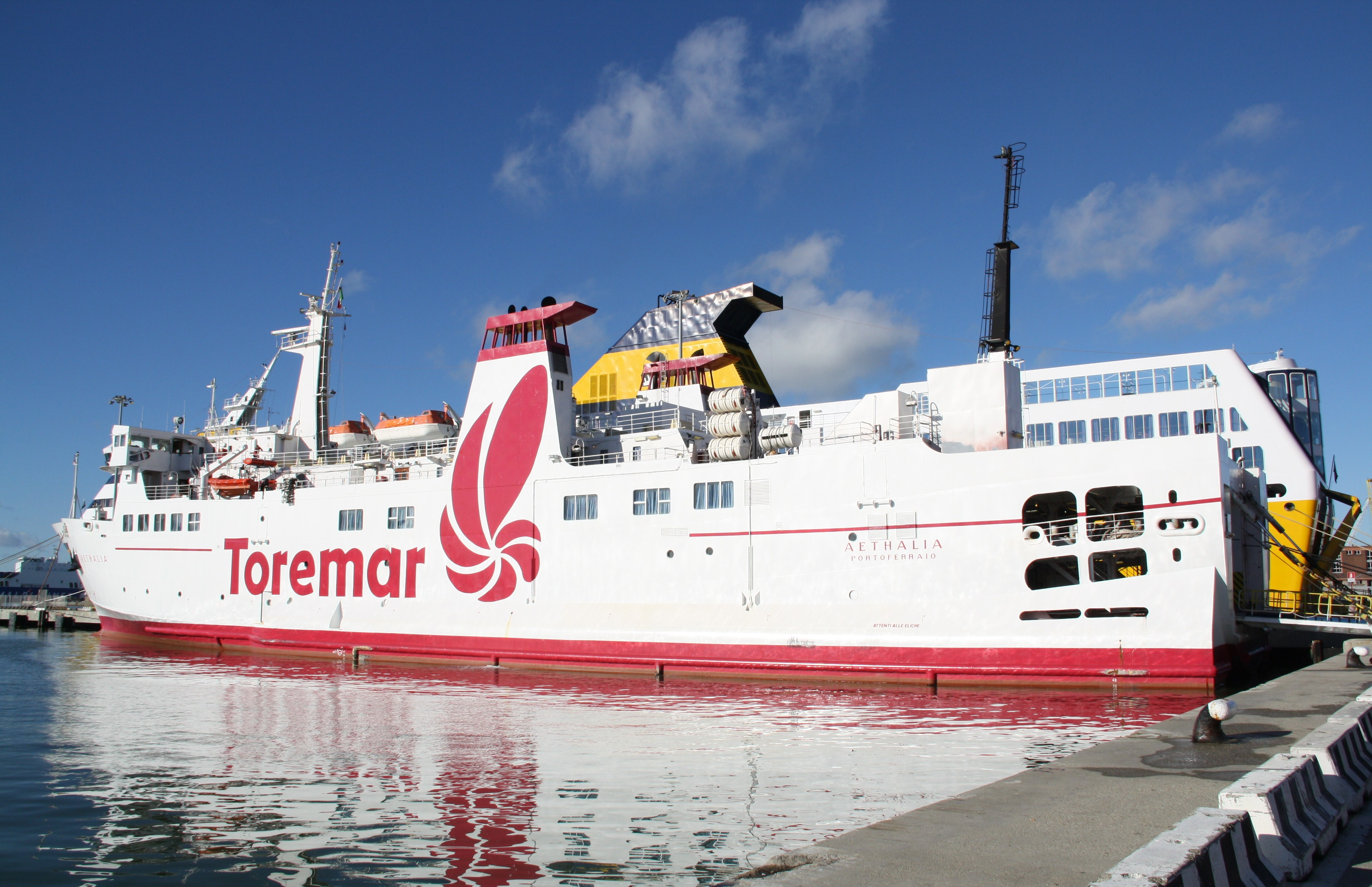 Italy, Port of Livorno. The Toremar ferry Aethalia berthed at “Andana degli Anelli” of “Porto Mediceo”.